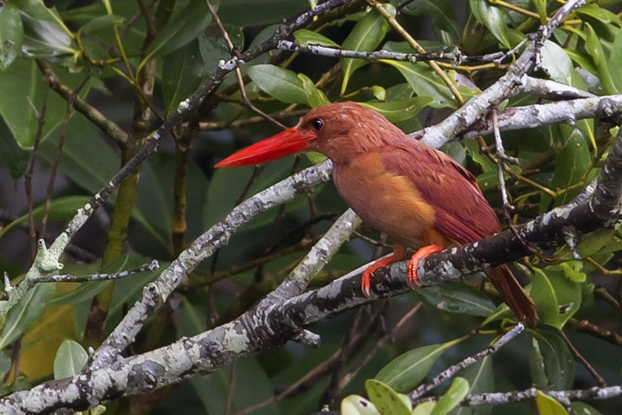 The species Ruddy Kingfisher has been photographed at Sunderbans National Park, West Bengal, India on 23.08.2014.